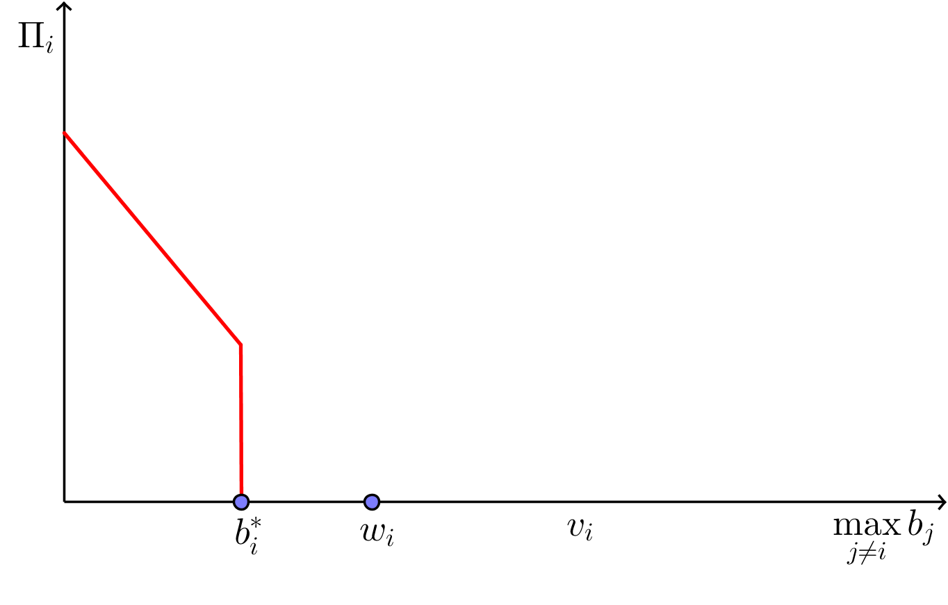 Second price auction with binding budget constraint 2 (below-budget bidding)